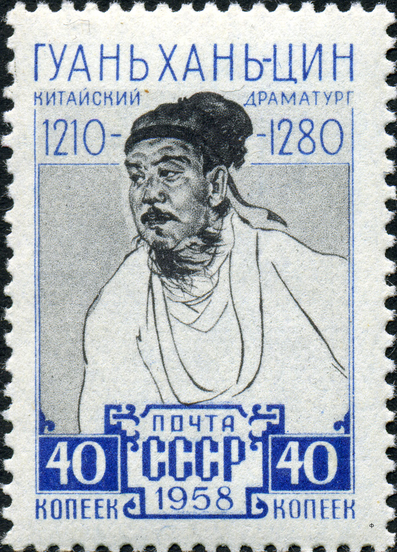 USSR stamp, Guan Hanqing, Chinese playwright, 40 kop., 1958, CFA # 2262